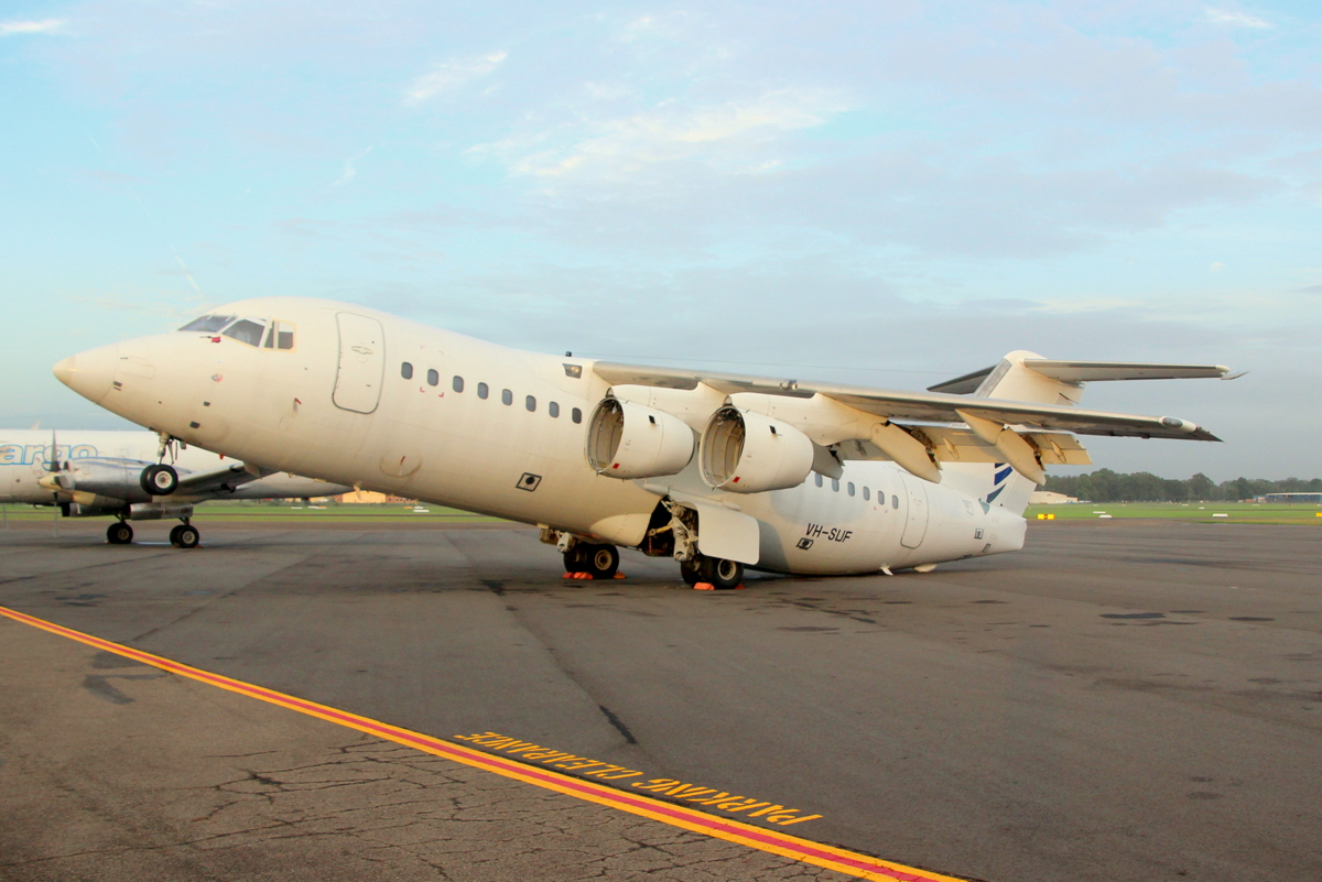 The centre of gravity of this British Aerospace 146-200 had shifted aft to a location above the main landing gear due to its engines having being removed. This and windy conditions combined to cause it to tip onto its rear fuselage; once in that position the centre of gravity was aft of the main landing gear so it did not return to its normal attitude after the wind died down.